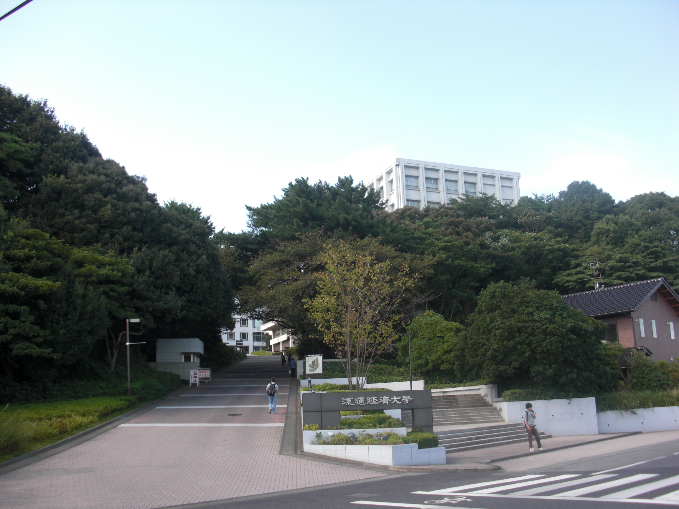 This is the Ryutsu Keizai University Ryugasaki campus, which is located in Ryugasaki, Ibaraki, Japan.